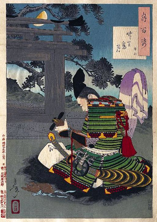 Chikubushima moon (Chikubushima no tsuki)